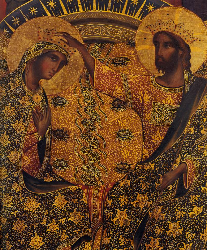 central panel: The Coronation of the Virgin